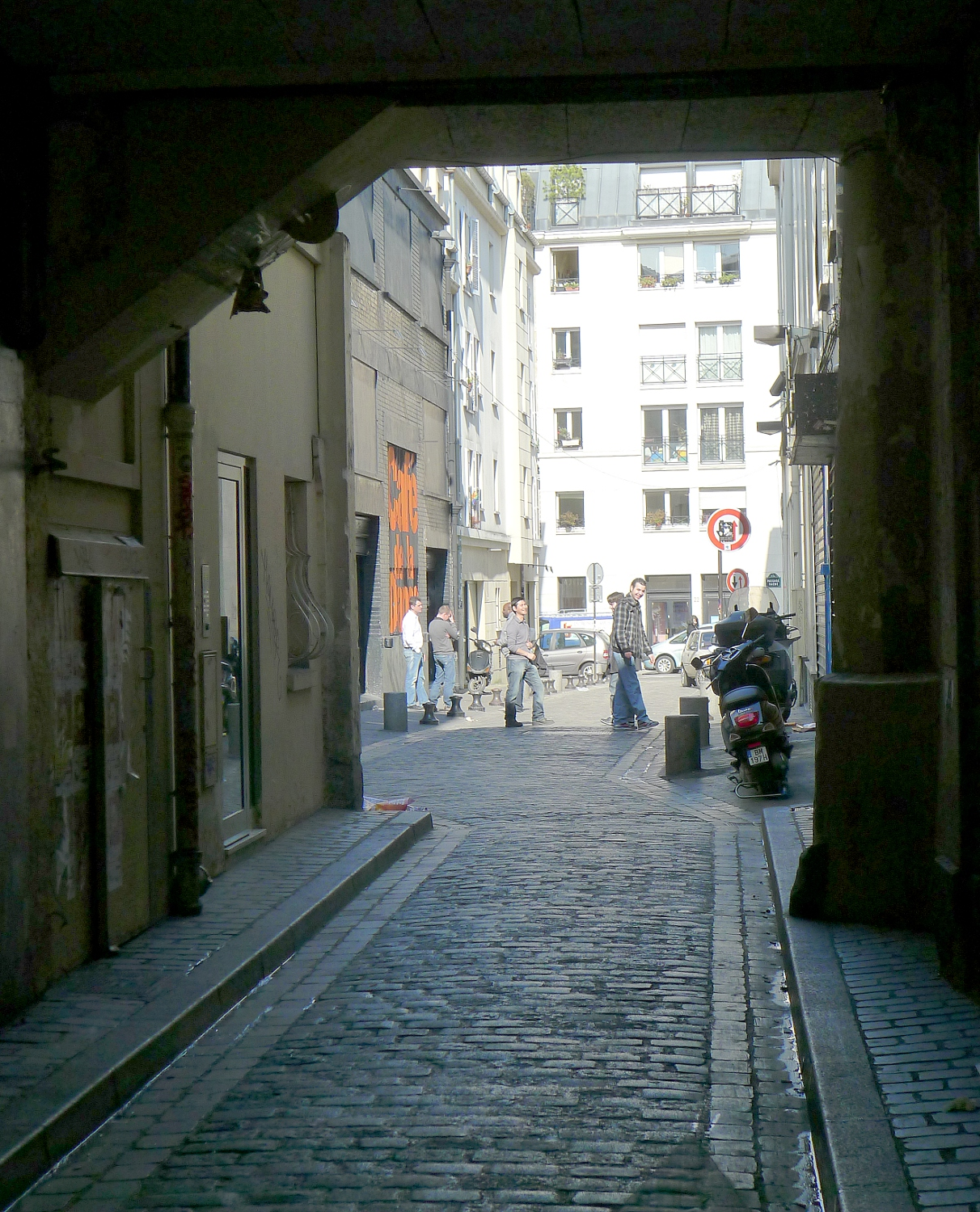 Passage Louis-Philippe - Paris